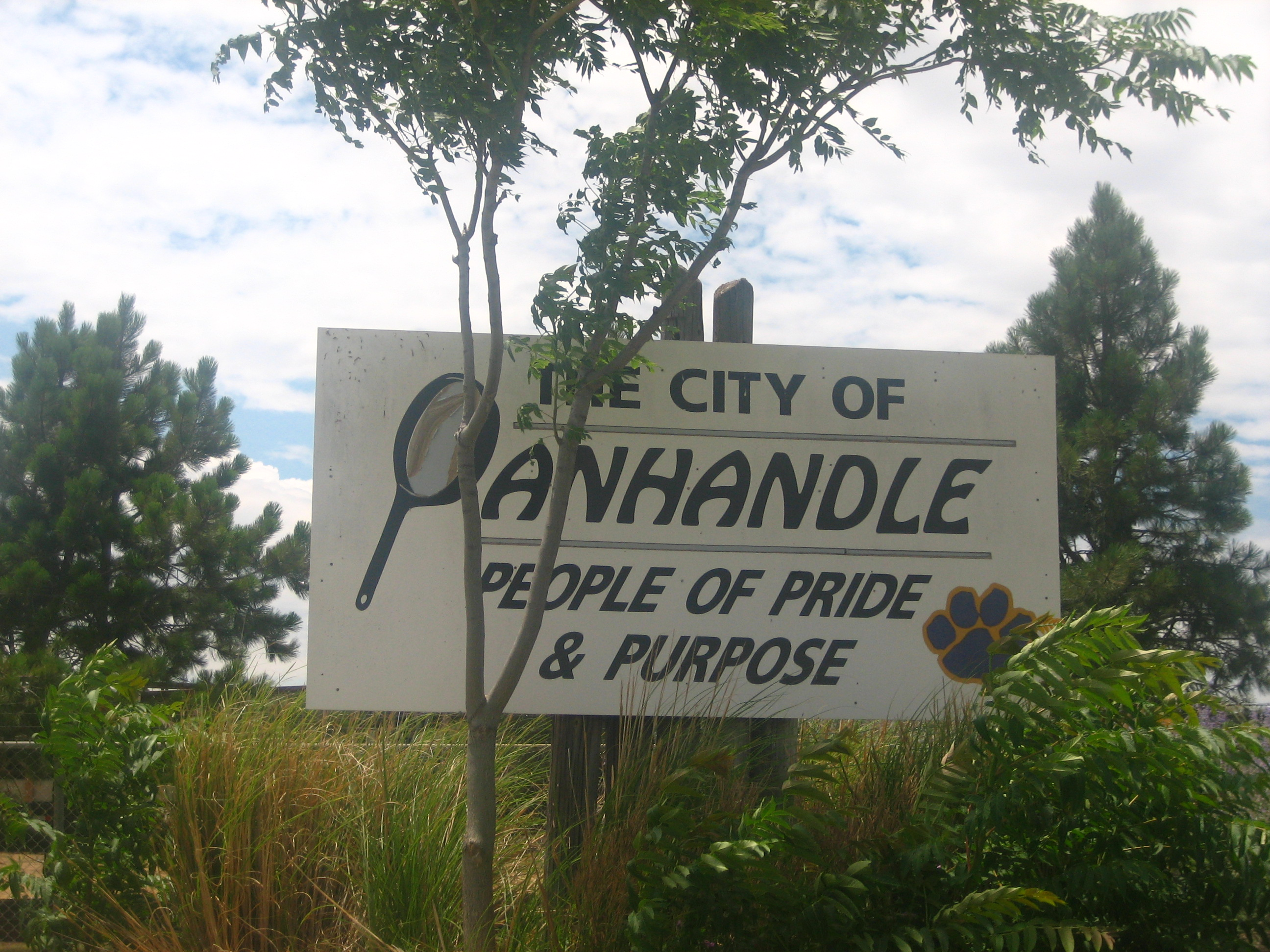 I took photo on July 15, 2008. Billy Hathorn (talk) 21:28, 22 July 2008 (UTC)